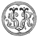 Emblem of S.R. Urbino, bookseller & publisher, Boston, Mass., 1870